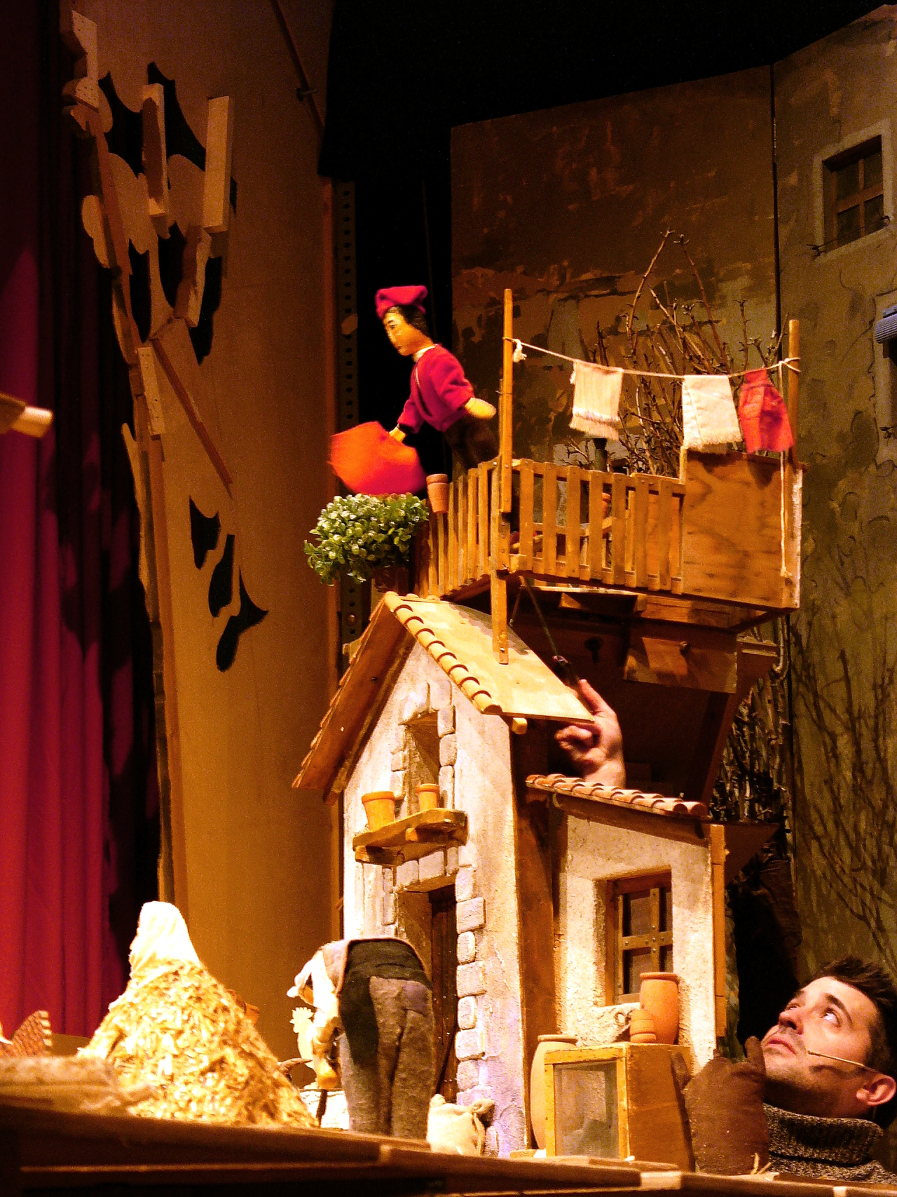 Alcoi's own Betlem de Tirisiti puppet show from the inside depicting actor Jordi Carbonell manipulating its main character